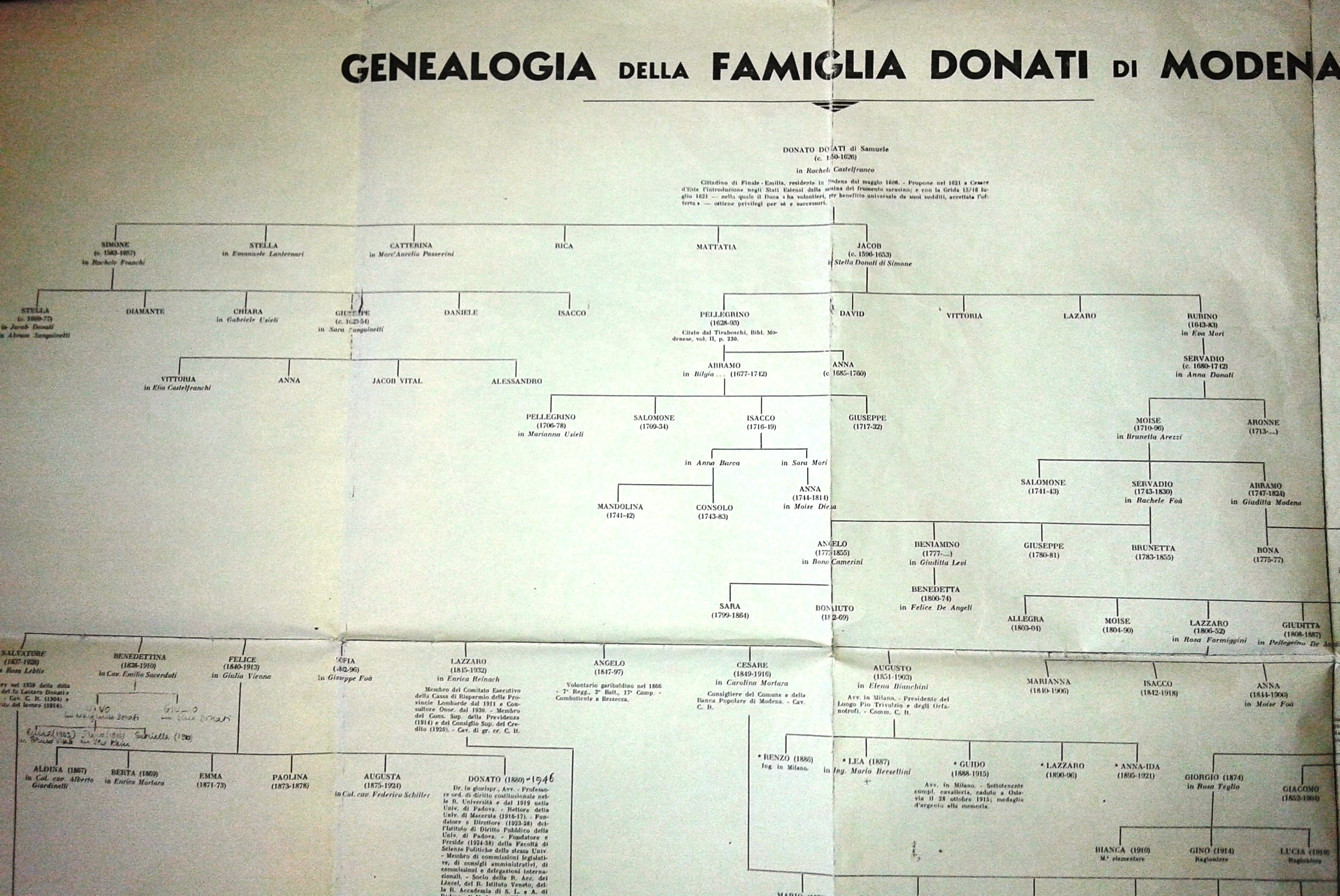 Detail of the family tree of the Donati family from Modena (Italy) from 1600 to 1900